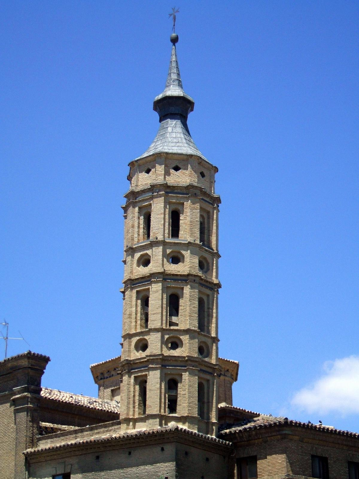 Iglesia de San Juan de los Panetes, Zaragoza (Aragón, España)